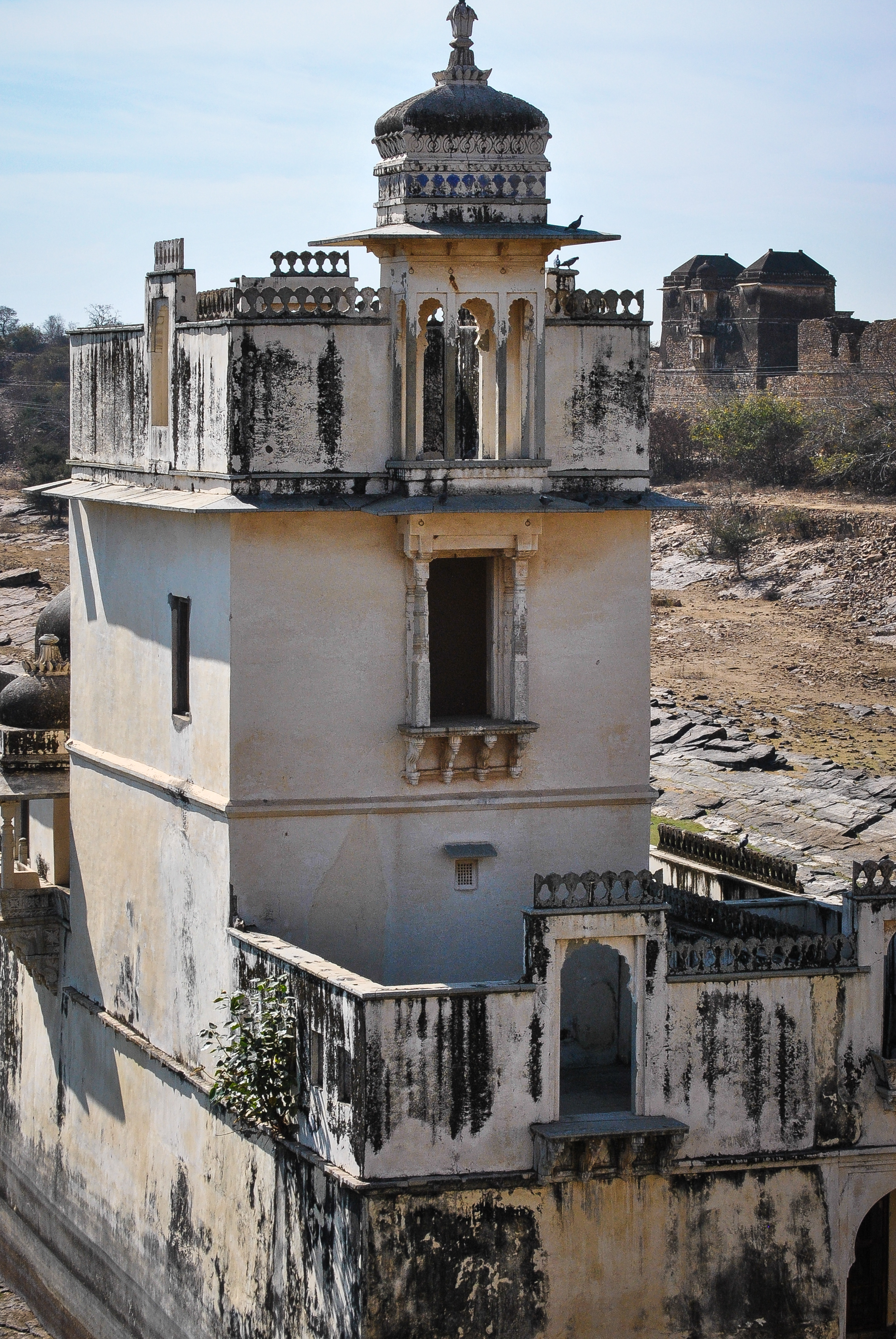 Rajasthan-Chittore_Garh